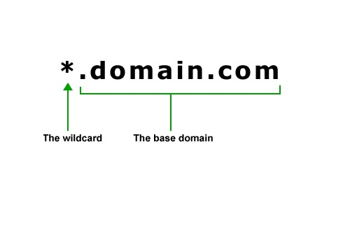 Brief information about wildcard ssl certificate provided by